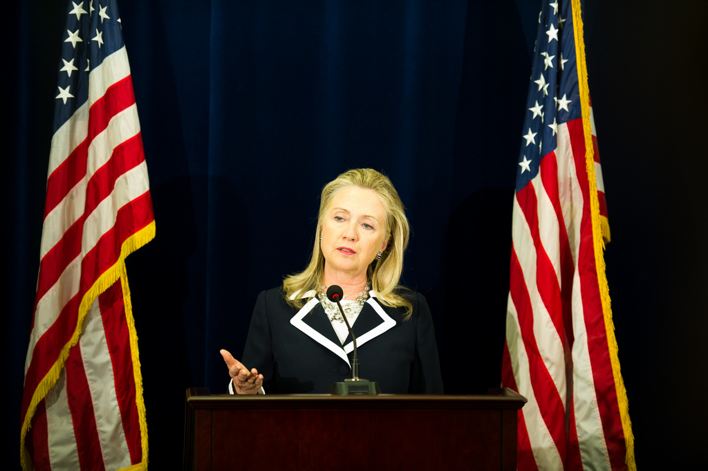 U.S. Secretary of State Hillary Rodham Clinton addresses the media at a press conference after her meetings during the Asia-Pacific Economic Cooperation (APEC) Leaders' Week in Vladivostok, Russia, September 9, 2012. [State Department photo by William Ng/Public Domain]